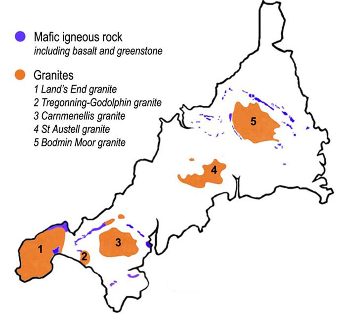 A sketch map showing the distribution of granite batholiths and mafic rocks in Cornwall